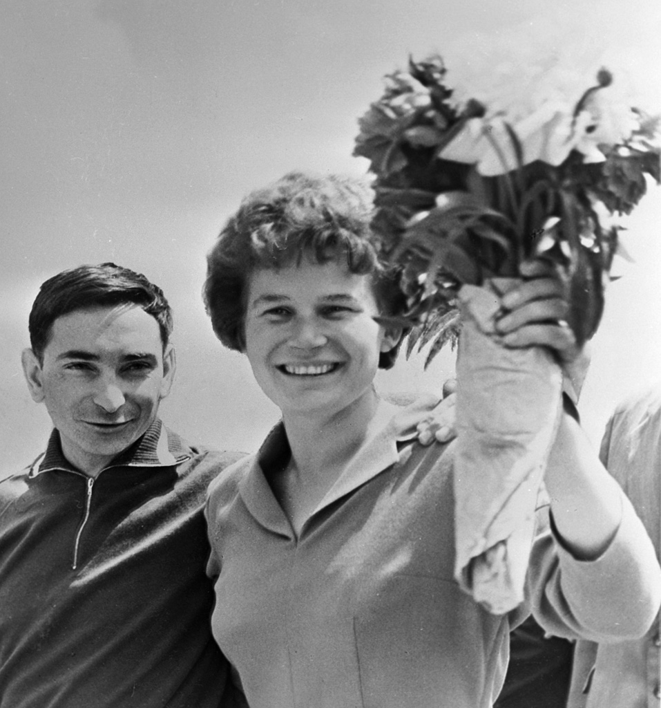 “Valery Bykovsky and Valentina Tereshkova”. Valery Bykovsky (left) and Valentina Tereshkova (right).